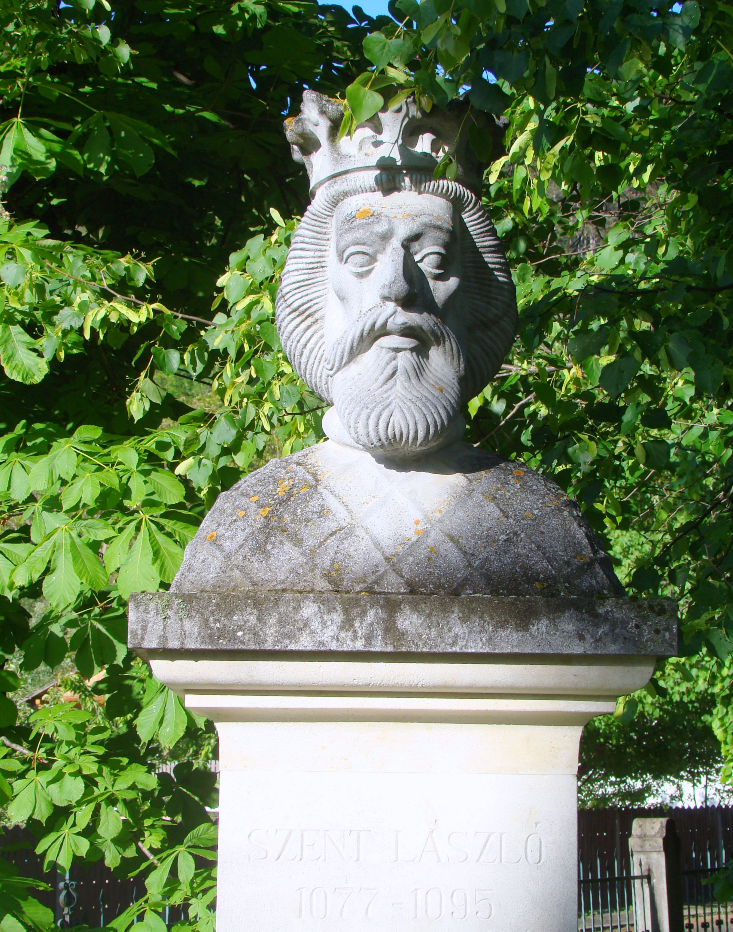 Reformed church in Săvădisla, Cluj County, Romania